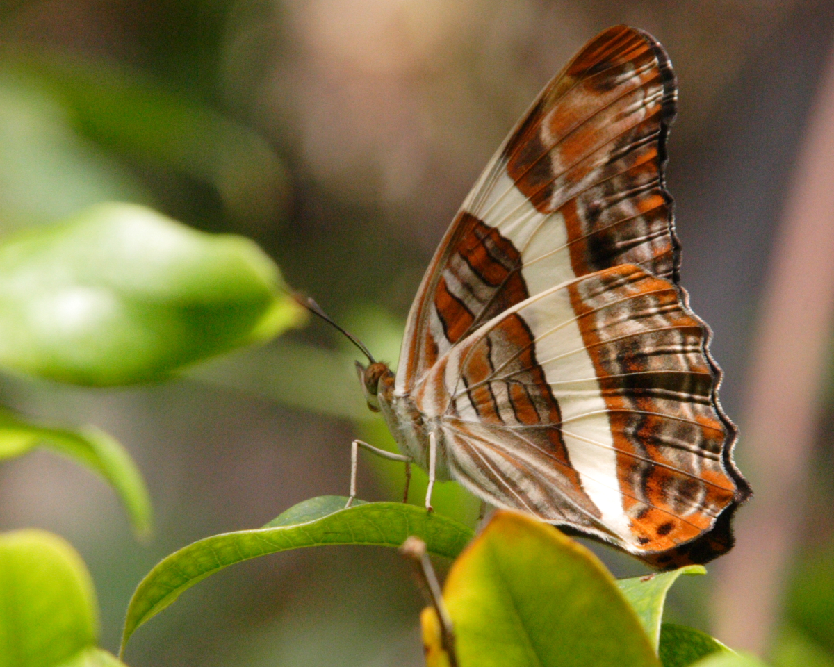 Adelpha fessonia (Mexican sister), underside, Central America, Monsanto Insectarium, St. Louis Zoo